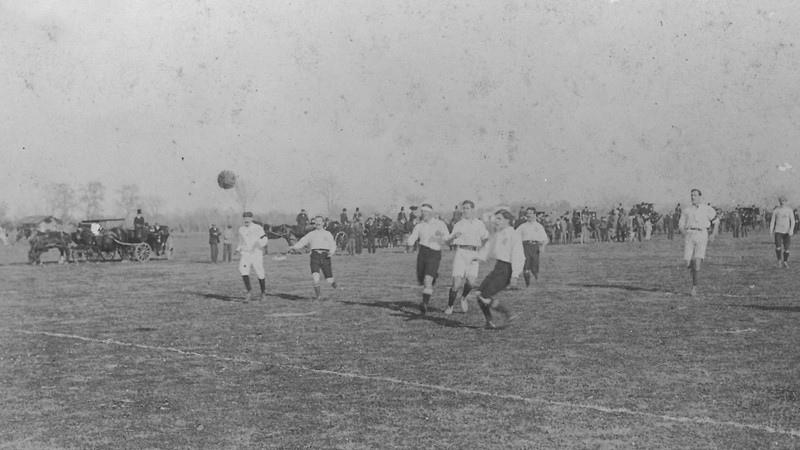 Photo taken during the game between Sevilla Fútbol Club and Real Club Recreativo de Huelva, 1909